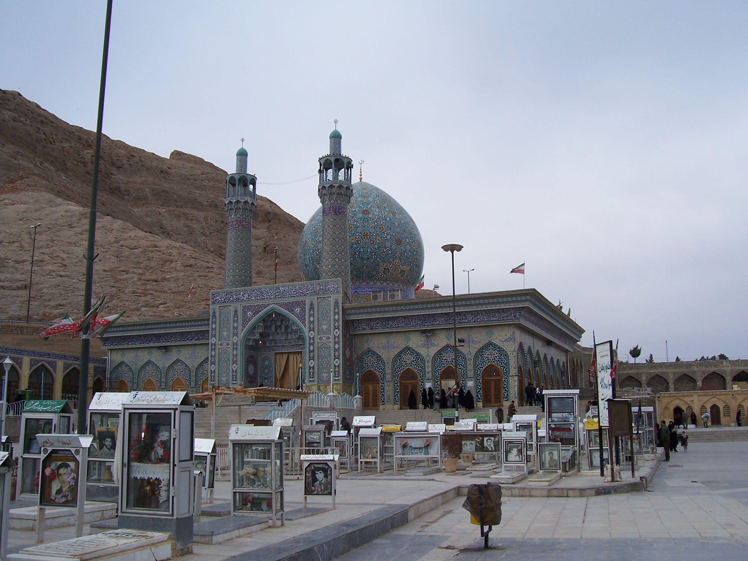 Shahreza mosque, taken by me. for Shahreza article.